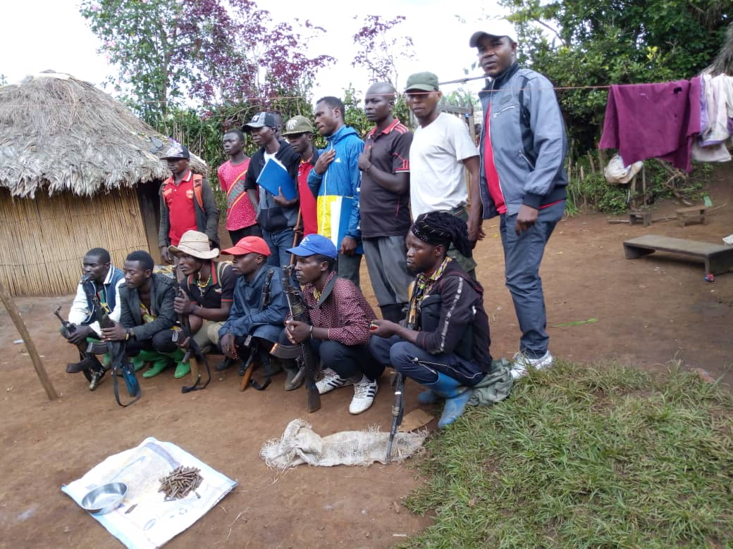 Thirteen Raiya Mutomboki fighters and their leader, self-proclaimed colonel Safari Ngorongo from Chaminunu village, in Kalehe territory, surrendered on March 26, 2019 in Kalehe with six AK-47 rifles and 95 rounds of ammunition to MONUSCO